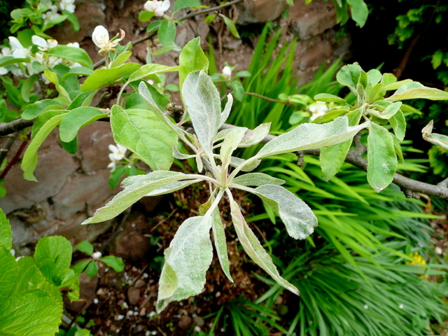 Apple Powdery Mildew (Podosphaera leucotricha) on the Malus in 1274740. The dry conditions of the spring of 2009 have exacerbated this disease.